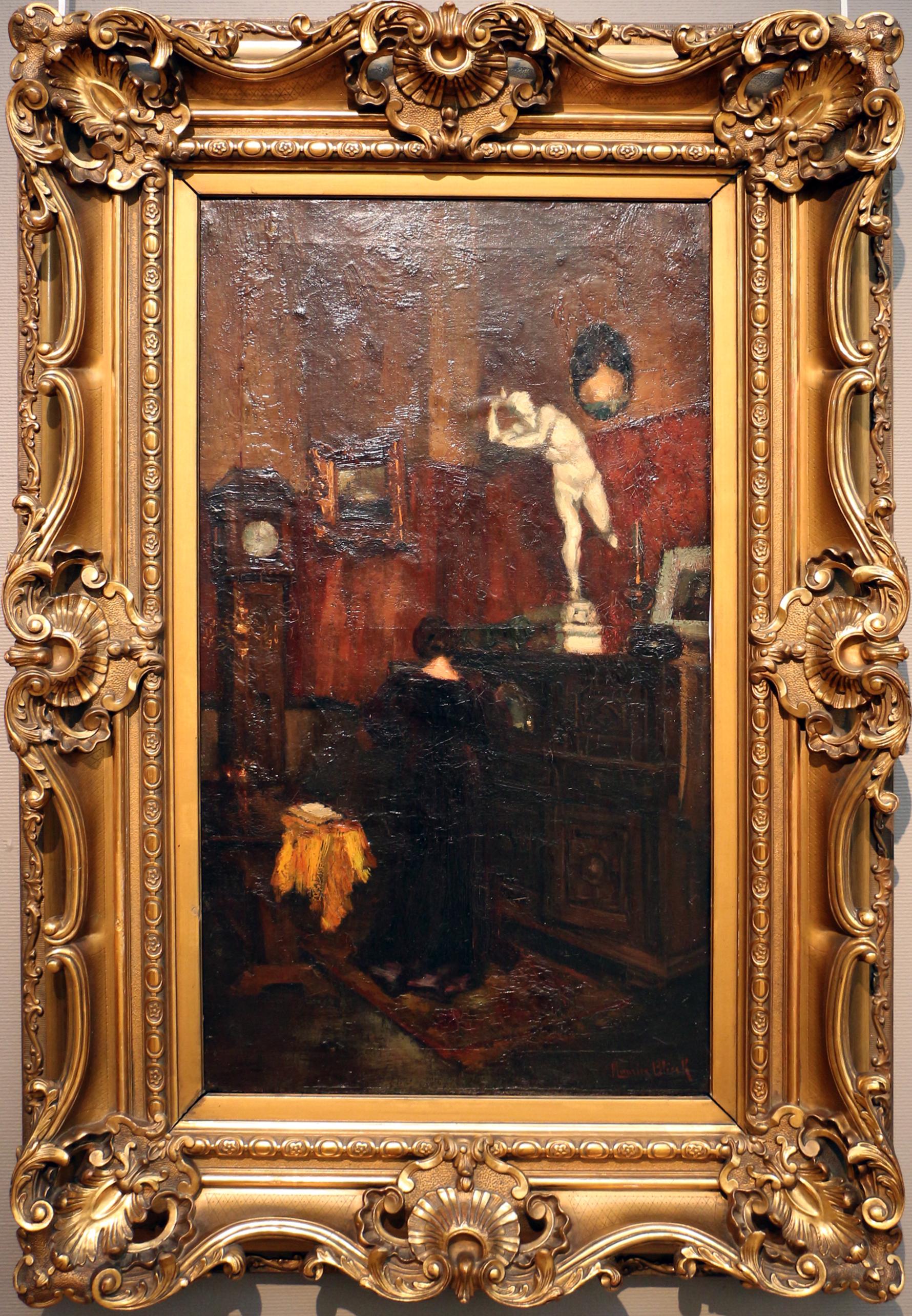 Museum of Ixelles